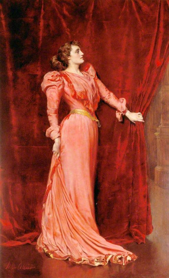 Painting by John Collier